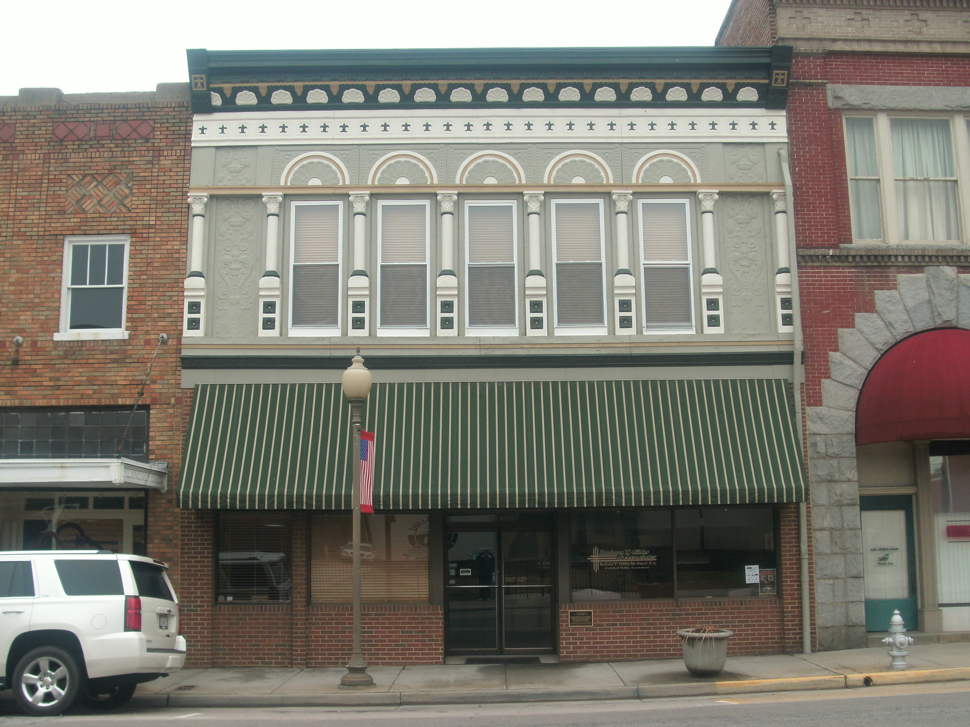 Nottoway County, Virginia, April, 2015 GEDSC DIGITAL CAMERA